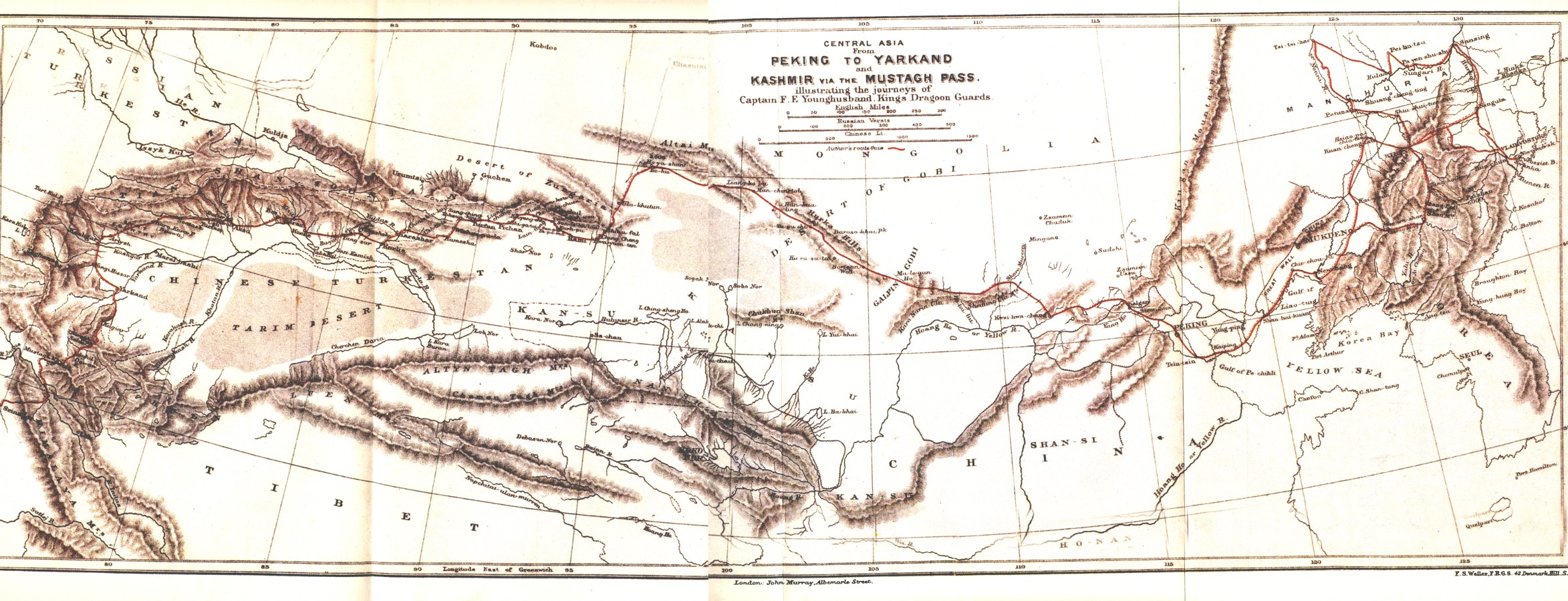 A map showing the route of Frank E Younghusband on his trip from Beijing to Kashmir.